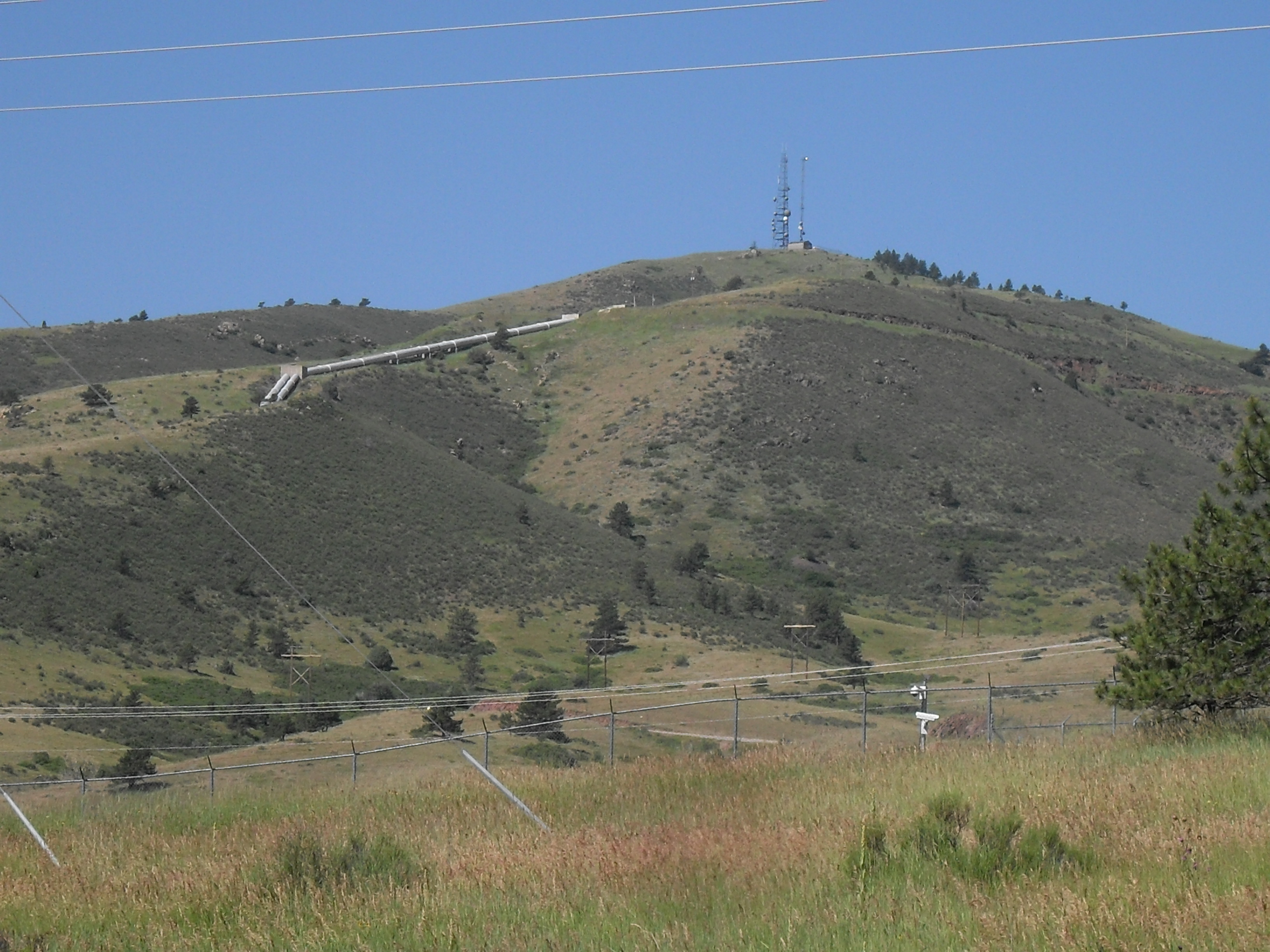 Water pipes on Bald Mountain, also known as "penstocks" carry water from Pinewood Resevoir to the Flatiron Power Plant west of Loveland, CO